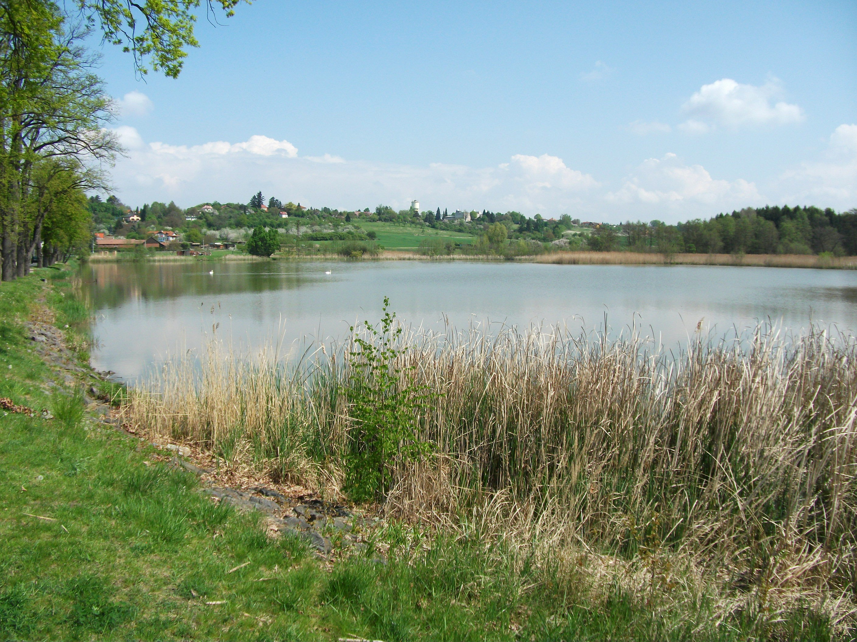 An overview of the Roudnicka pond, Hradec Králové, Czech Republic.